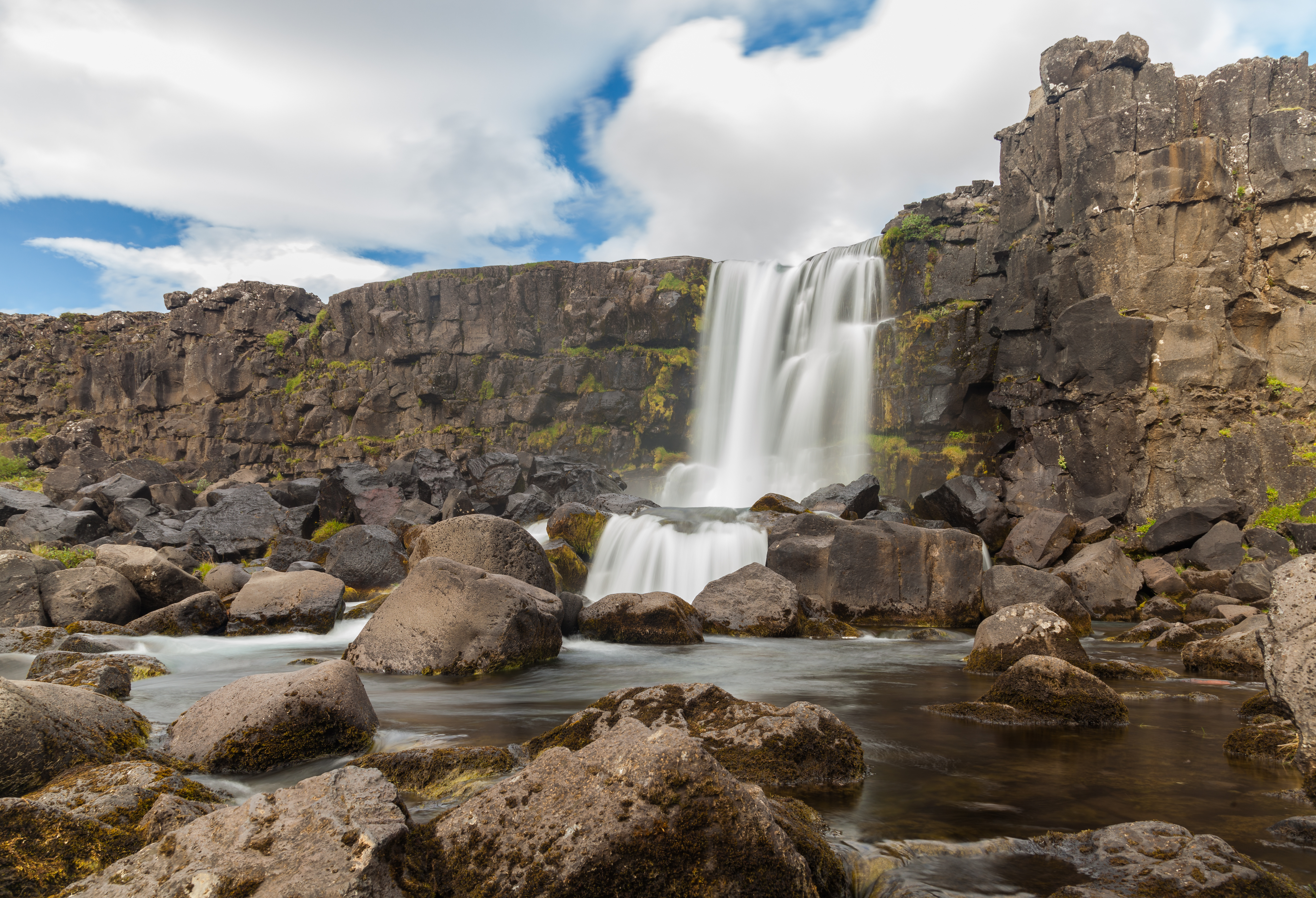 Gullfoss, Suðurland, Iceland